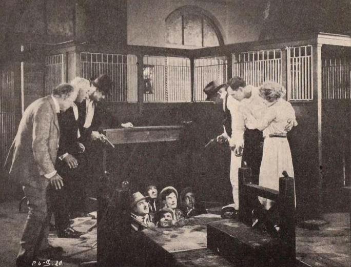 Still from the American comedy film A Midnight Bell (1921) with Charles Ray and Doris Pawn, the other actors are not identified, on page 53 of the July 2, 1921 Exhibitors Herald.